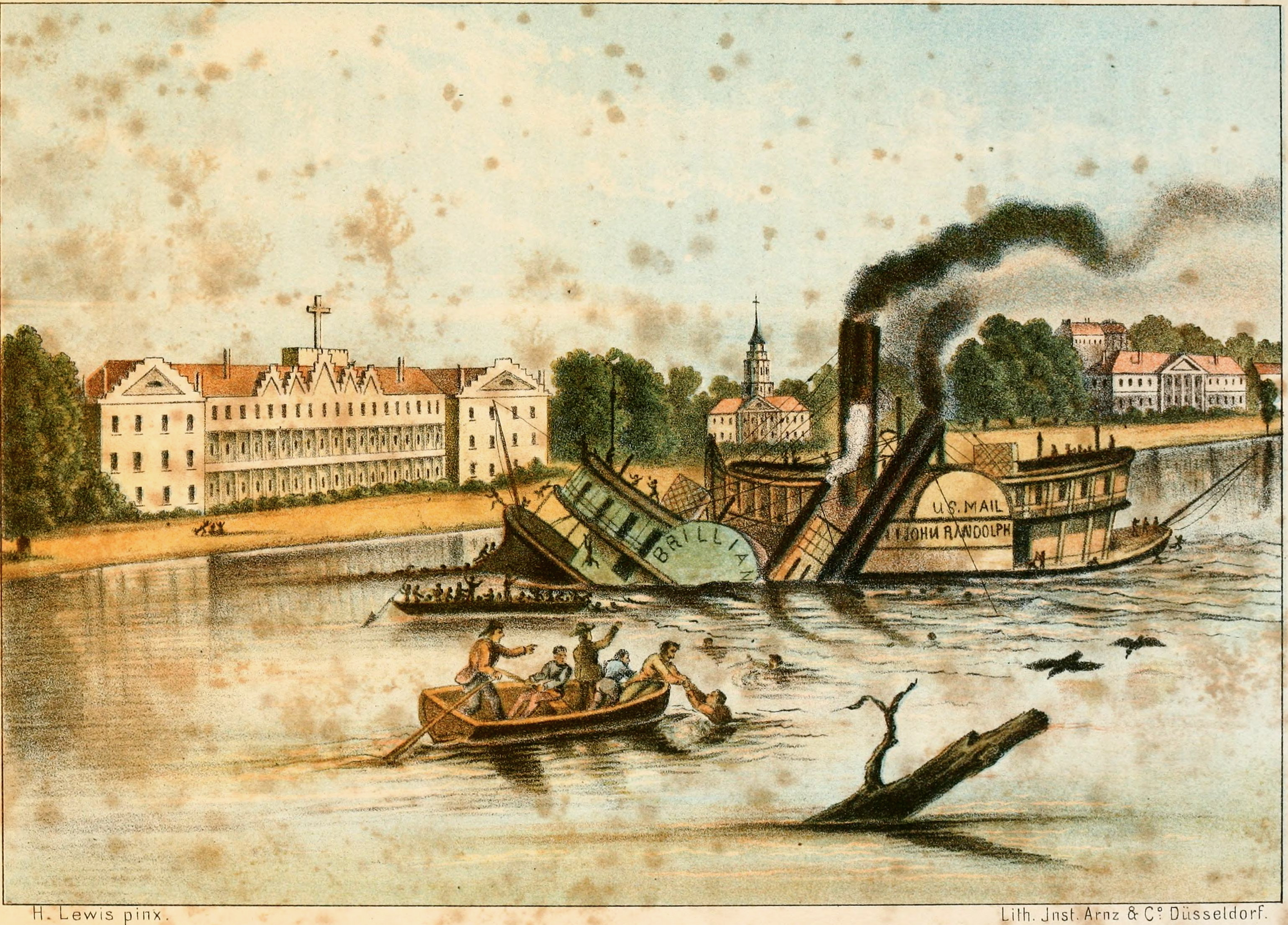 "Convent du Sacrament". Lithograph by Henry Lewis depicting the sinking of the steamboat "Brilliant" on the Mississippi River by Bayou Goula, Louisiana. Assistance is being given to the survivors by the US Mail Ship "John Randolph and various rowboats. The School & Convent of the Sacred Heart is seen in the background. Notes: The sinking of the "Brilliant" took place 29 September 1851, as result of a boiler explosion, resulting in some 47 deaths.